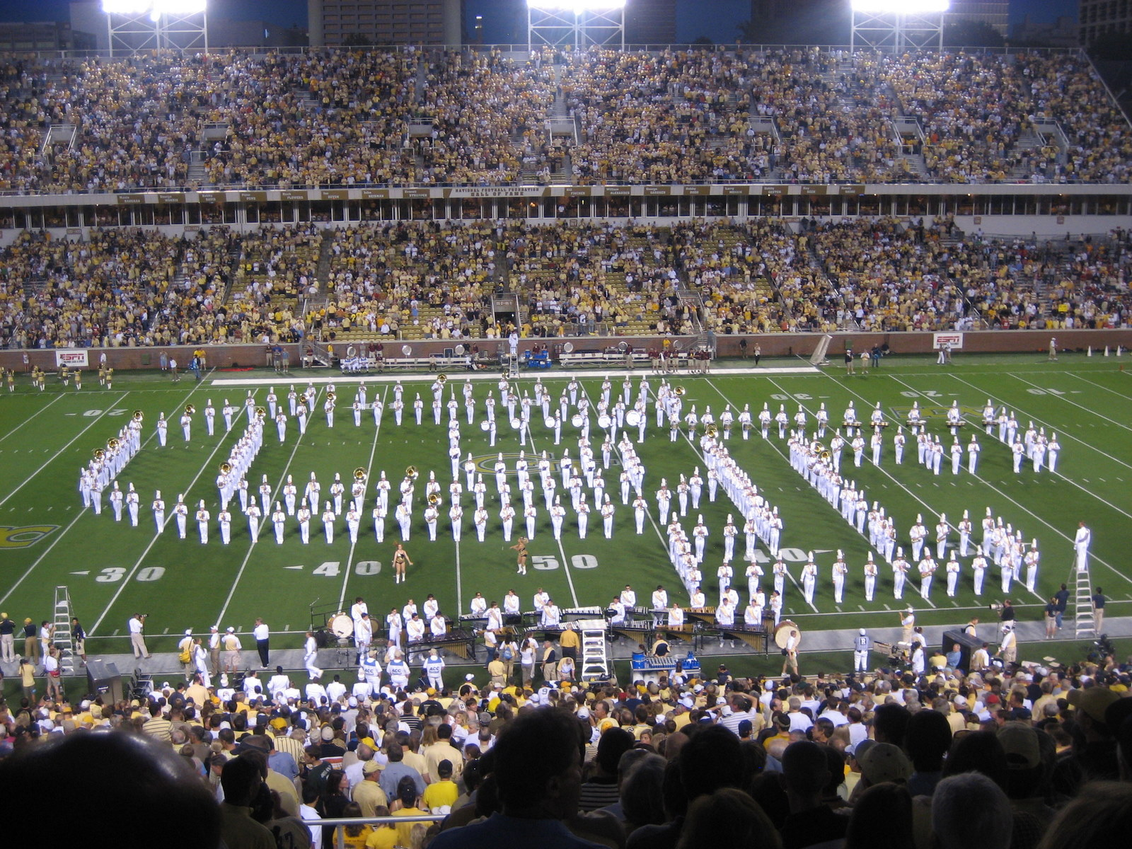 Georgia Tech Marching Band forms the GT during their pregame performance.